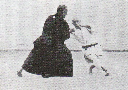 "Hiki-otoshi" is one of Koshiki-no-kata, which is a kata in Judo. Left : Kanō Jigorō Right : Yoshitsugu Yamashita